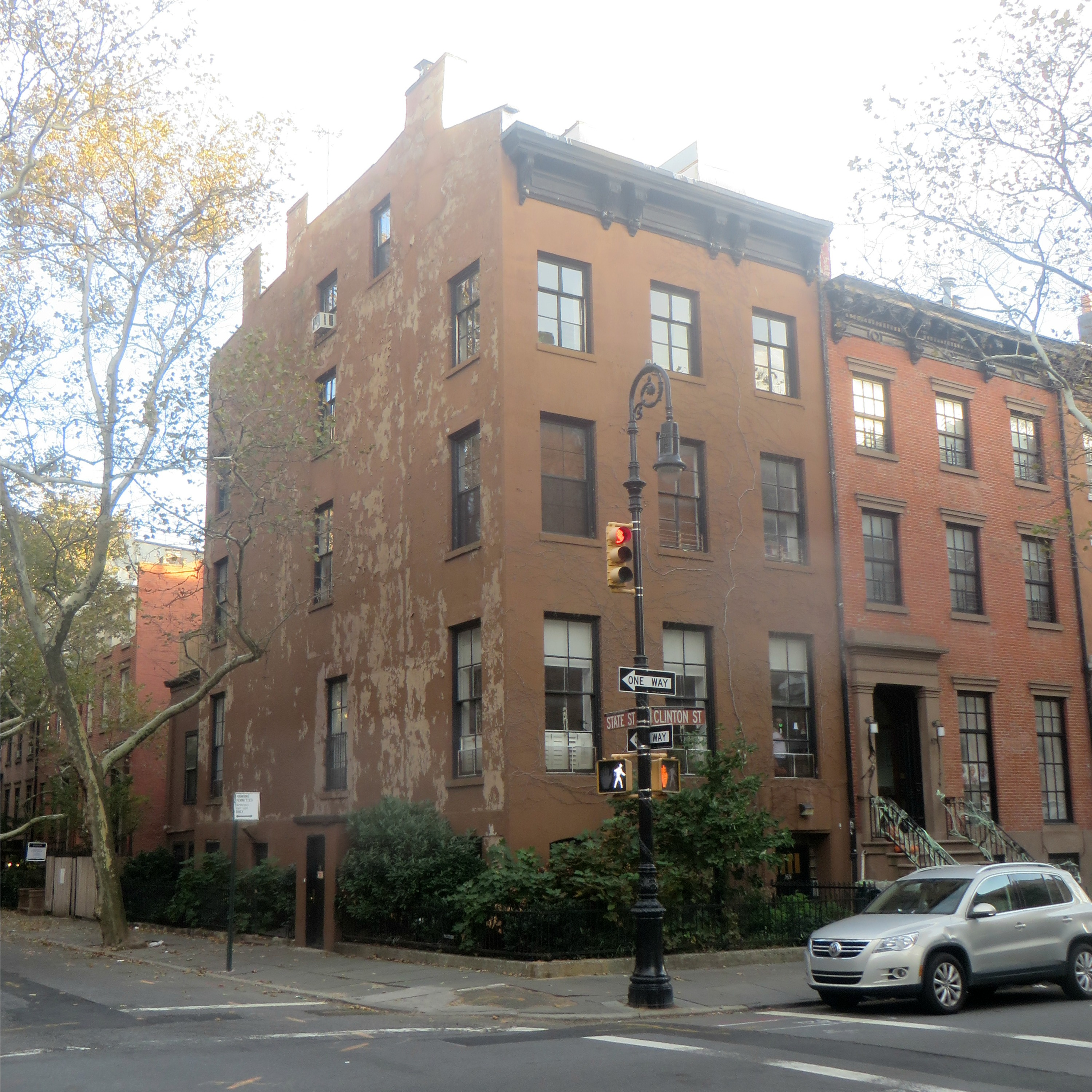 169 Clinton Street, where horror writer HP Lovecraft lived from January 1925 through April 1926. Here he wrote his New York City stories--"The Horror at Red Hook," "He" and "Cool Air."